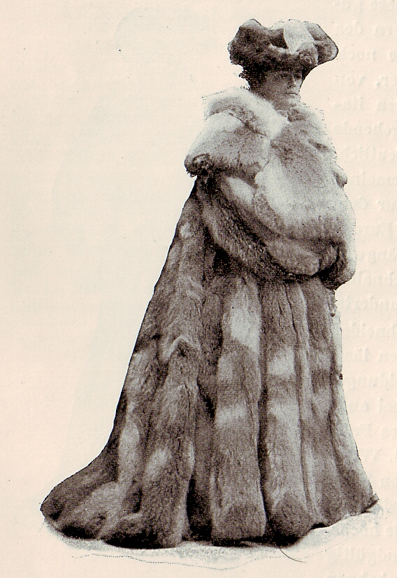 Red fox fur coat